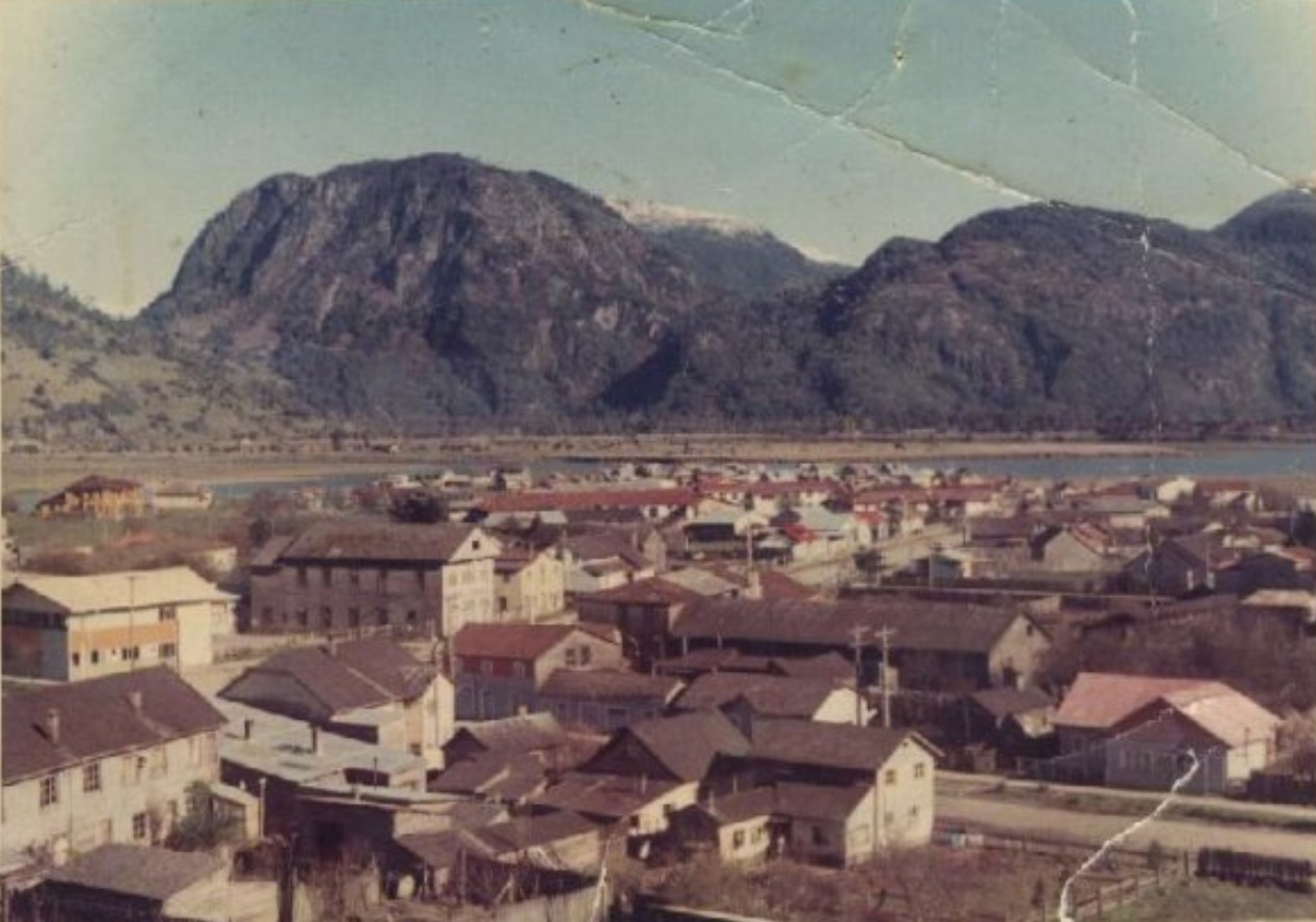 Archivo